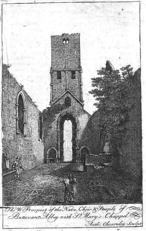 Original caption: Nave, Choir & Steeple of Buttevant Abbey with St. Mary's Chappel. Signed: Anth. Chearnley Sculpt. This print shows the tower before it fell in 1819.